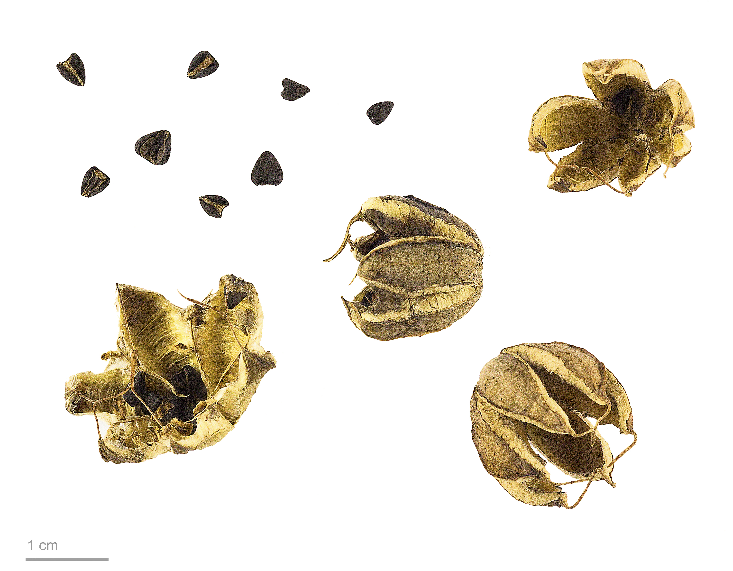 Aristolochia pistolochia , fruits and seeds